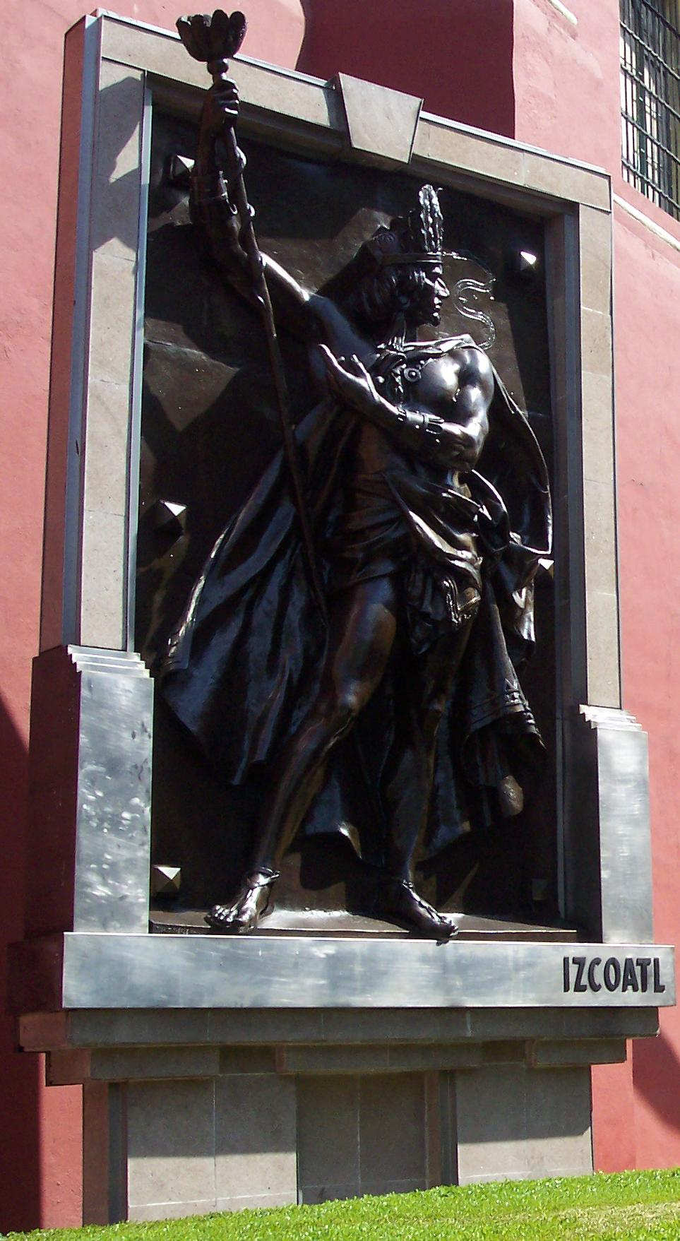 Bronze casting (1889) of the mexica tlatoani Izcoatl by Jesús F. Contreras, located in the Garden of the Triple Alliance in the historical center of Mexico City (Filomeno Mata street).